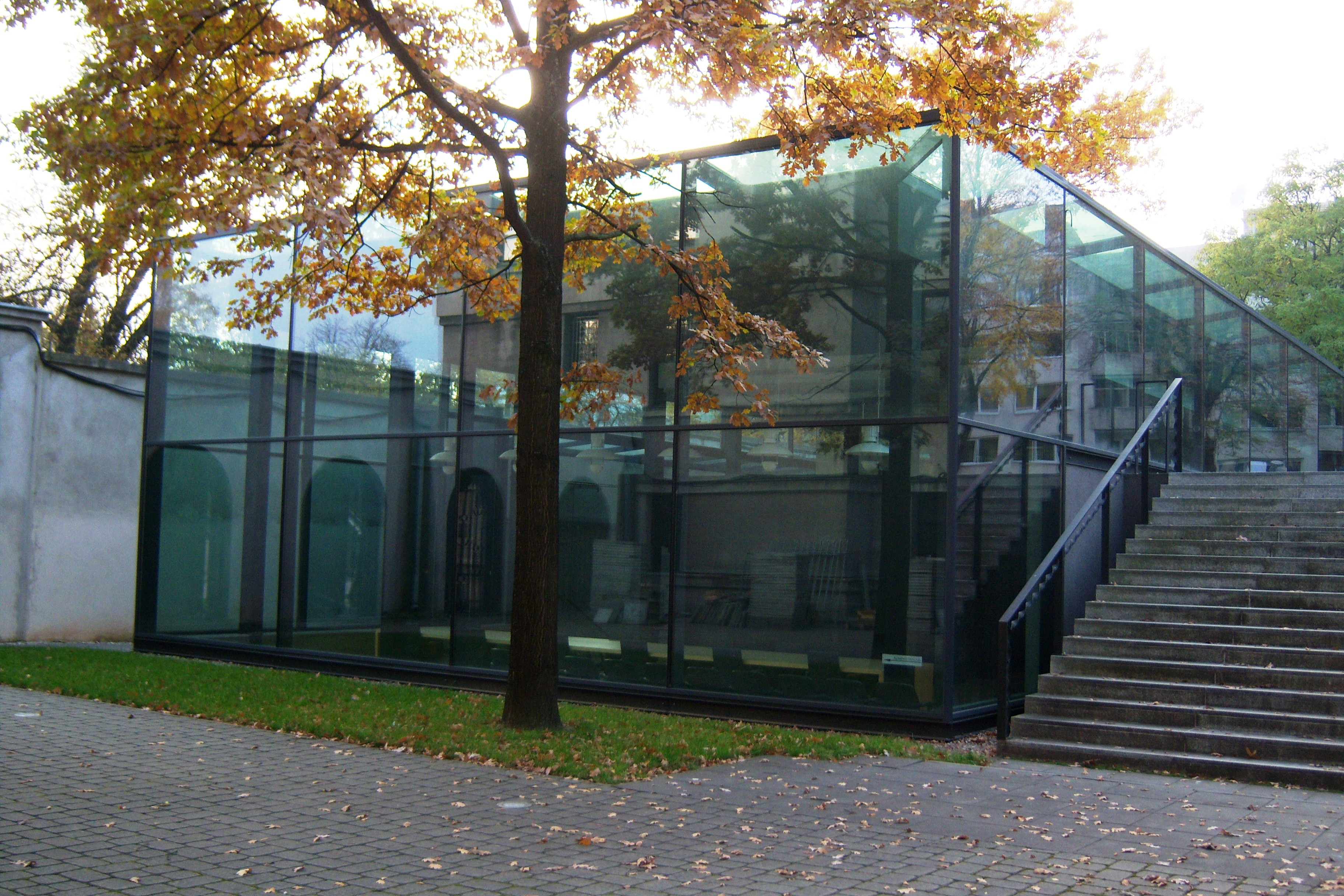 M. K. Čiurlionis National Art Museum, office building, Kaunas, Lithuania.